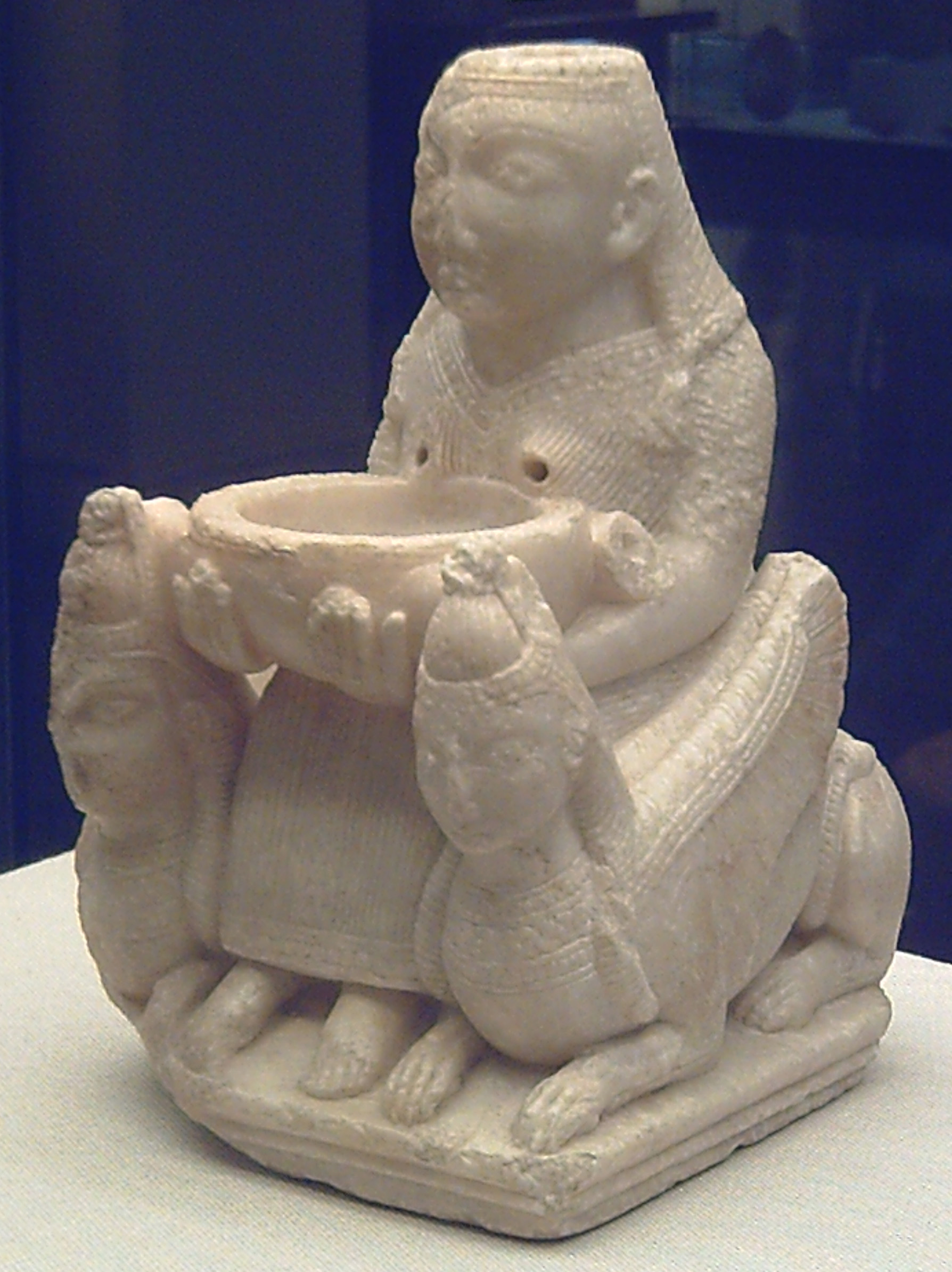 Phoenician figure representing an ancient Mideastern deity, probably the goddess Astarte.